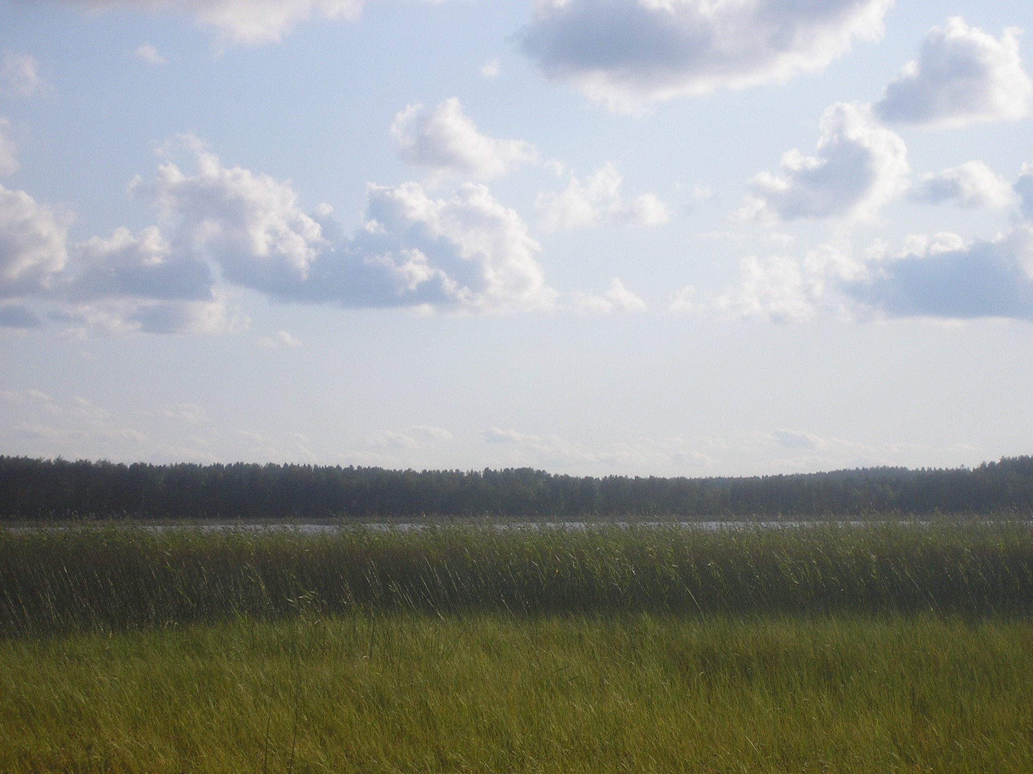 Lake Evijärvi in Evijärvi.